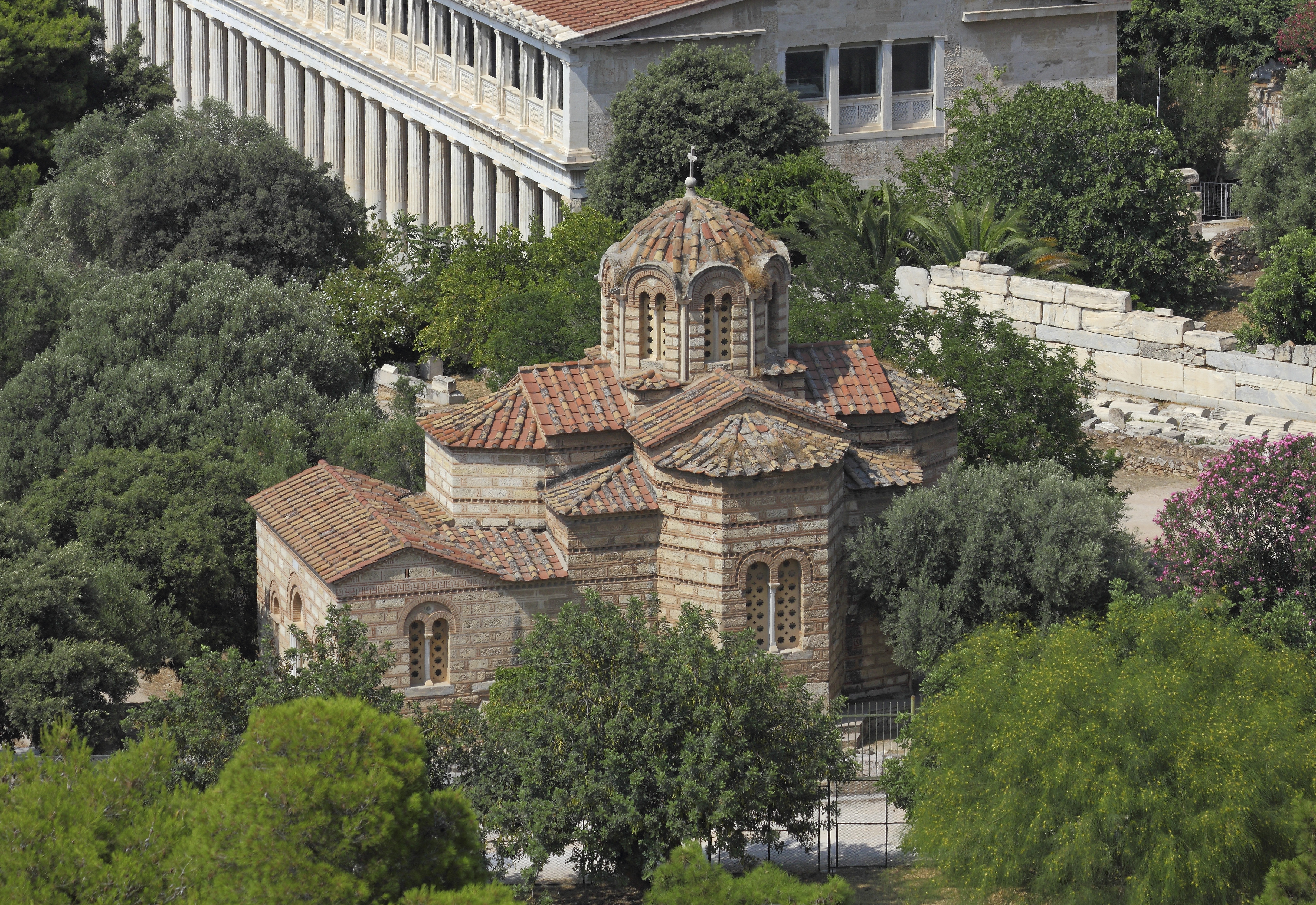 View of Athens (Attica, Greece) from Acropolis hill – Church of the Holy Apostles